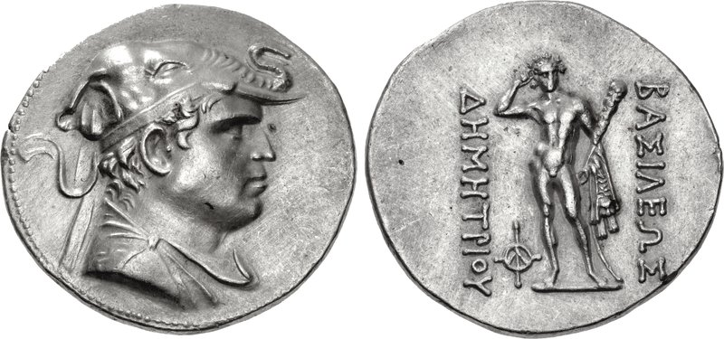 BAKTRIA, Greco-Baktrian Kingdom. Demetrios I Aniketos. Circa 200-185 BC. AR Tetradrachm (33mm, 17.00 g, 12h). Diademed and draped bust right, wearing elephant skin headdress / Herakles standing facing, crowning himself, holding club and lion skin; monogram to inner left Greek legend: ΒΑΣΙΛΕΩΣ ΔΗΜΗΤΡΙΟΥ (BASILEOS DEMETRIOU) "Of King Demetrius". Bopearachchi 1F; cf. Bopearachchi & Rahman 124 (fourrée); SNG ANS 190 The elephant-skin headdress sported by Demetrius on this remarkable series of coins serves the dual purpose of evoking Alexander the Great (who is shown wearing a similar headdress on coins of Ptolemy I) and trumpeting Demetrius' own victories in northern India, which greatly expanded the Greco-Roman realm.